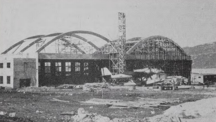 Heinkel He 115 F.58 at Tromsø Airport, Skattøra for maintenance.